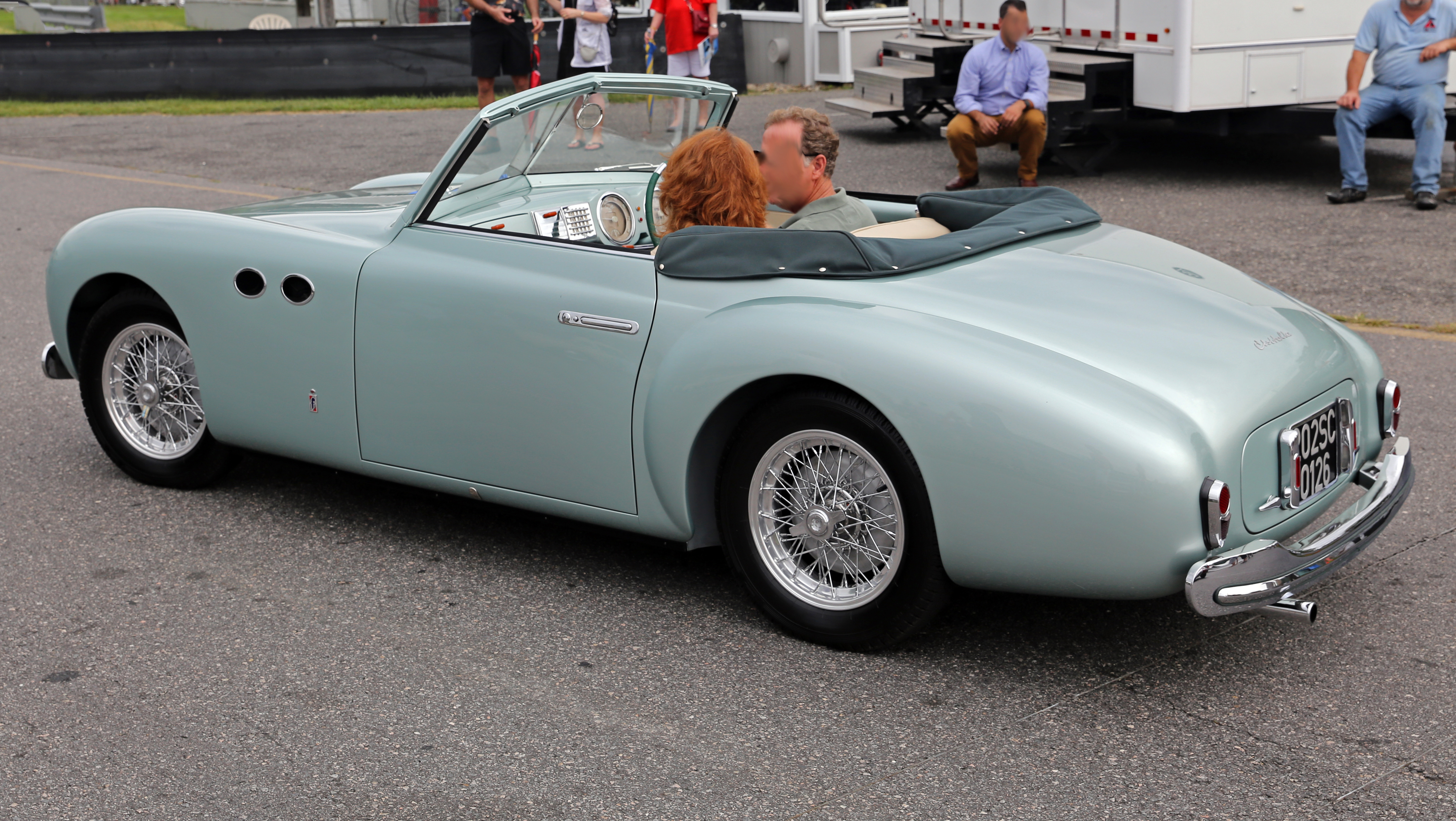 A 1951 Cisitalia 202C Spyder at the 2014 Lime Rock Concours d'Élegance. Chassis number 0126, I reckon.